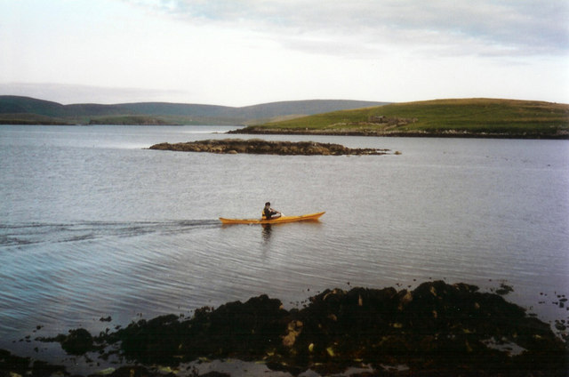 The small island of Linga, near Hildasay, Shetland Islands with The Skerry in between. This now uninhabited island used to have a sizeable population in the early part of the last century. Please note that several widely dispersed islands share this name.